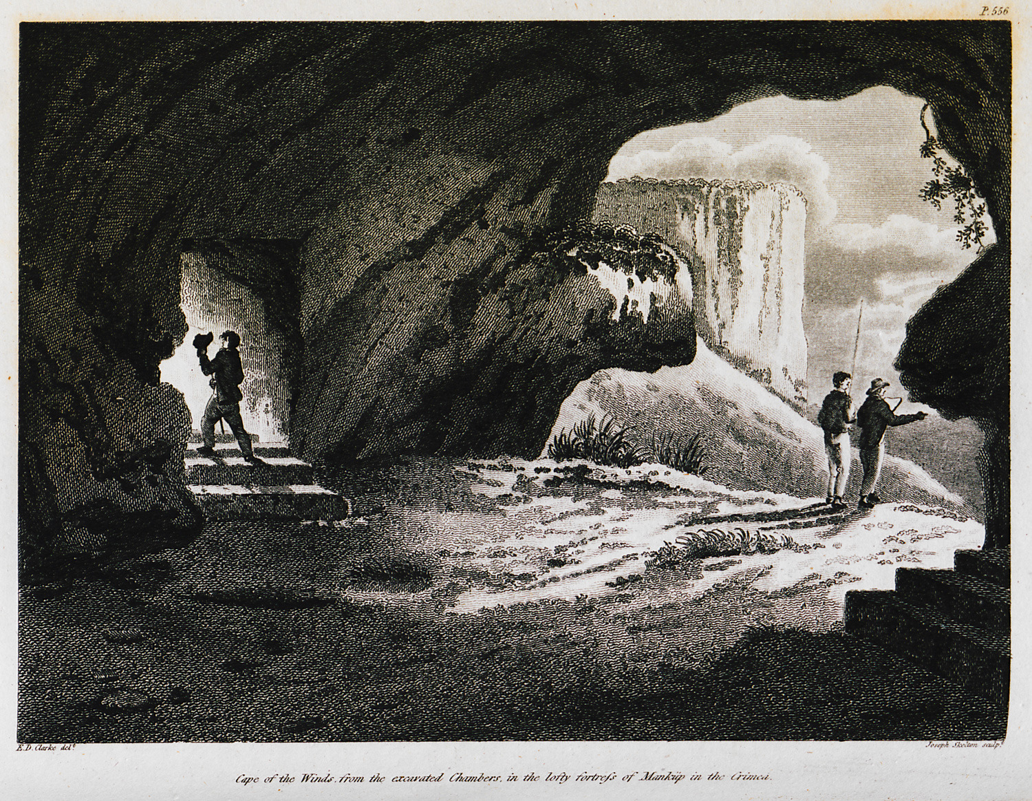 Edward Daniel Clarke. Travels in various countries of Europe Asia and Africa. Part the First Russia Tartary and Turkey (1810). Part the Second Greece Egypt and the Holy Land (1813). London, R. Watts for Cadell and Davies